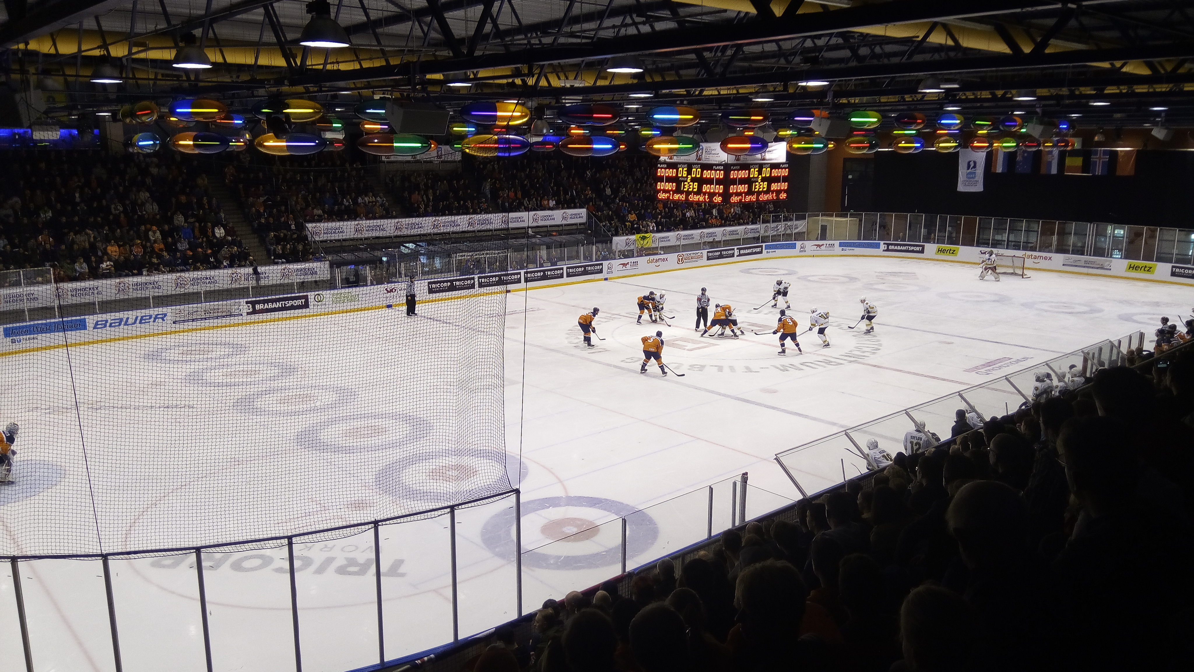 World Cup game Division II Group A in Tilburg between the Netherlands and Australia